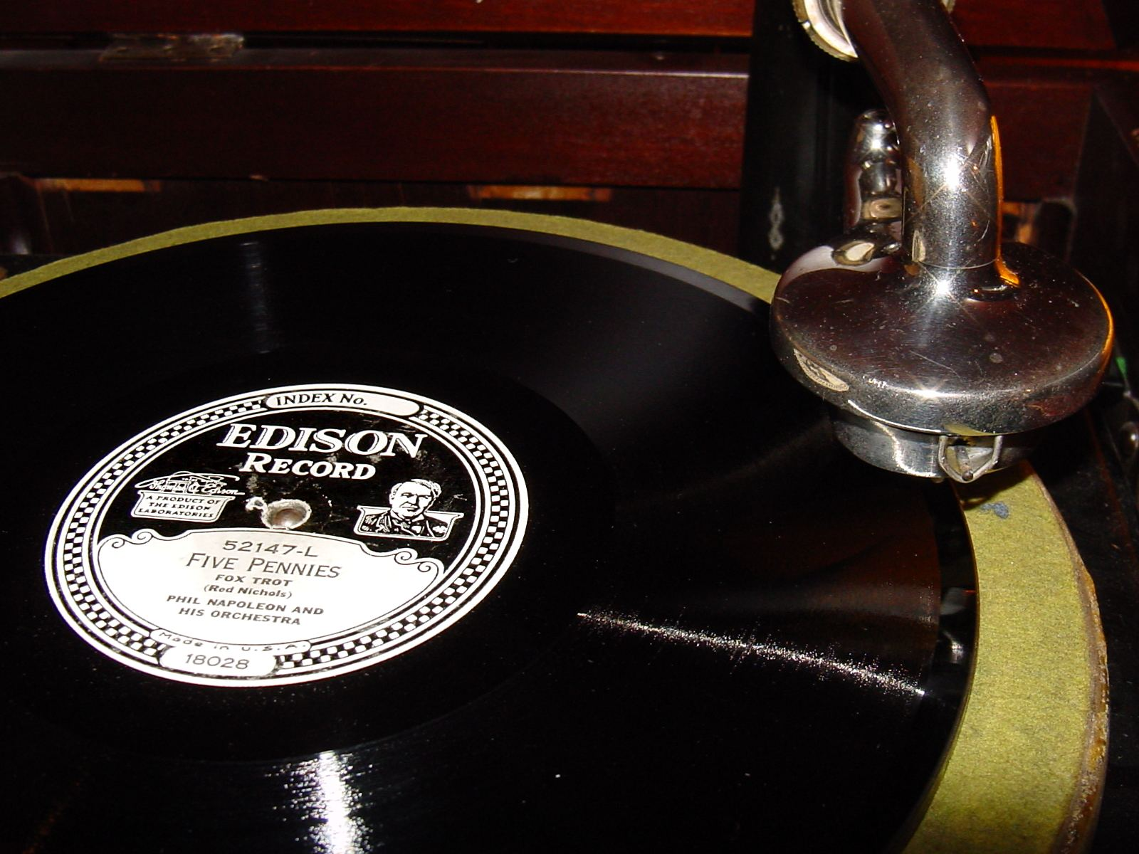 Diamond Disc on Phonograph (Edison system), An Edison Diamond Disc record ready to played on an Edison Diamond Disc Phonograph '